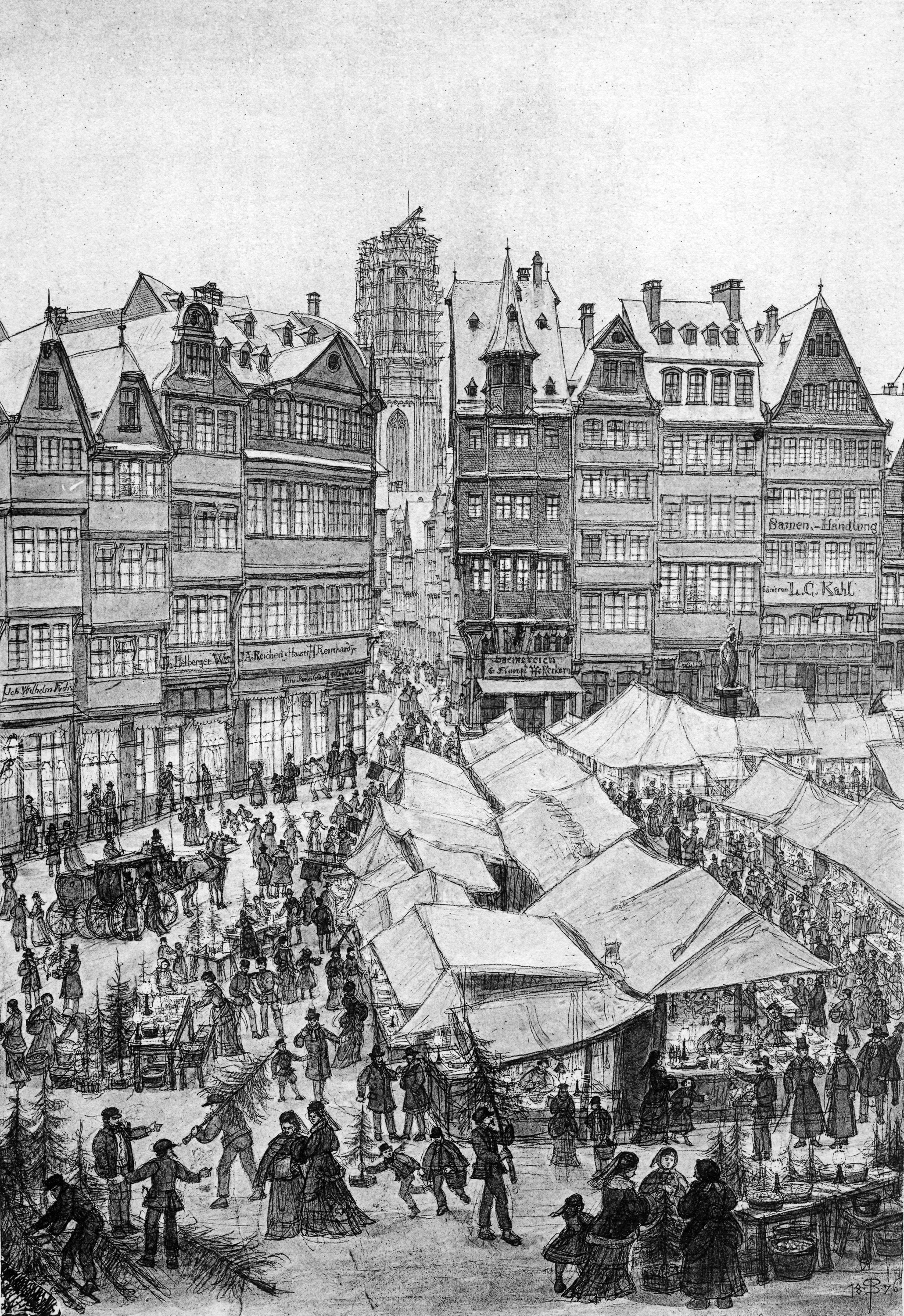 Frankfurt on the Main: The Römerberg during the Christmas market